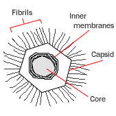 A simple line diagram of the basic structure of mimivirus, as described and pictured by: M. Suzan-Monti, B. La Scola and D. Raoult. Genomic and evolutionary aspects of Mimivirus. Virus Research, Volume 117, Issue 1, April 2006 Author: Emma Farmer